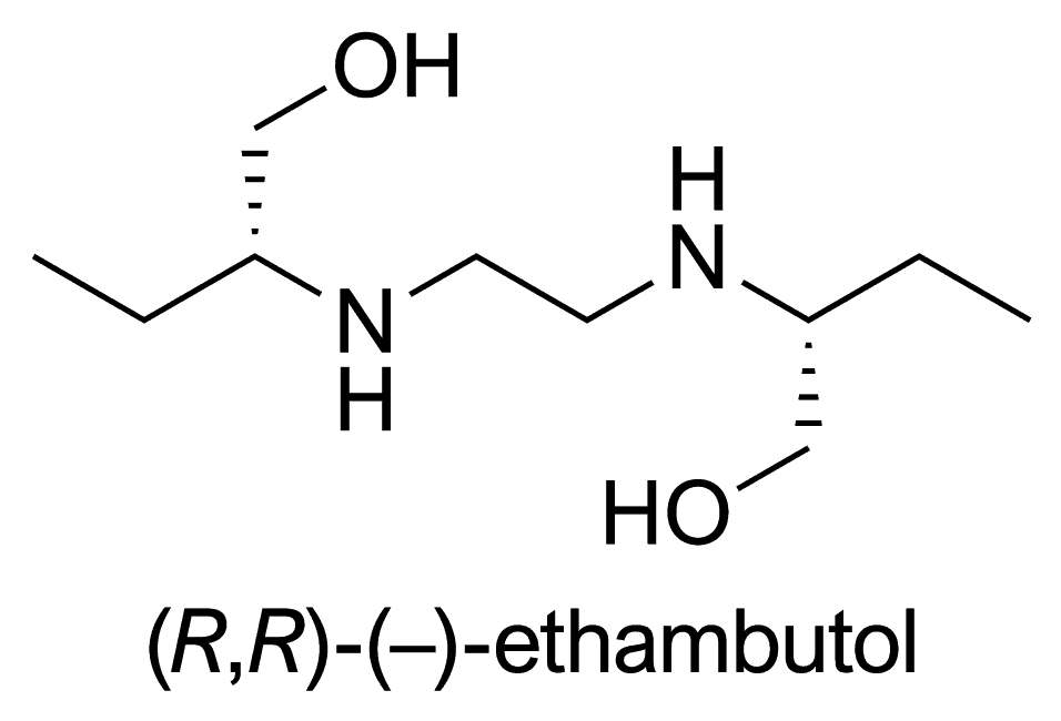 Negative enantiomer of ethambutol